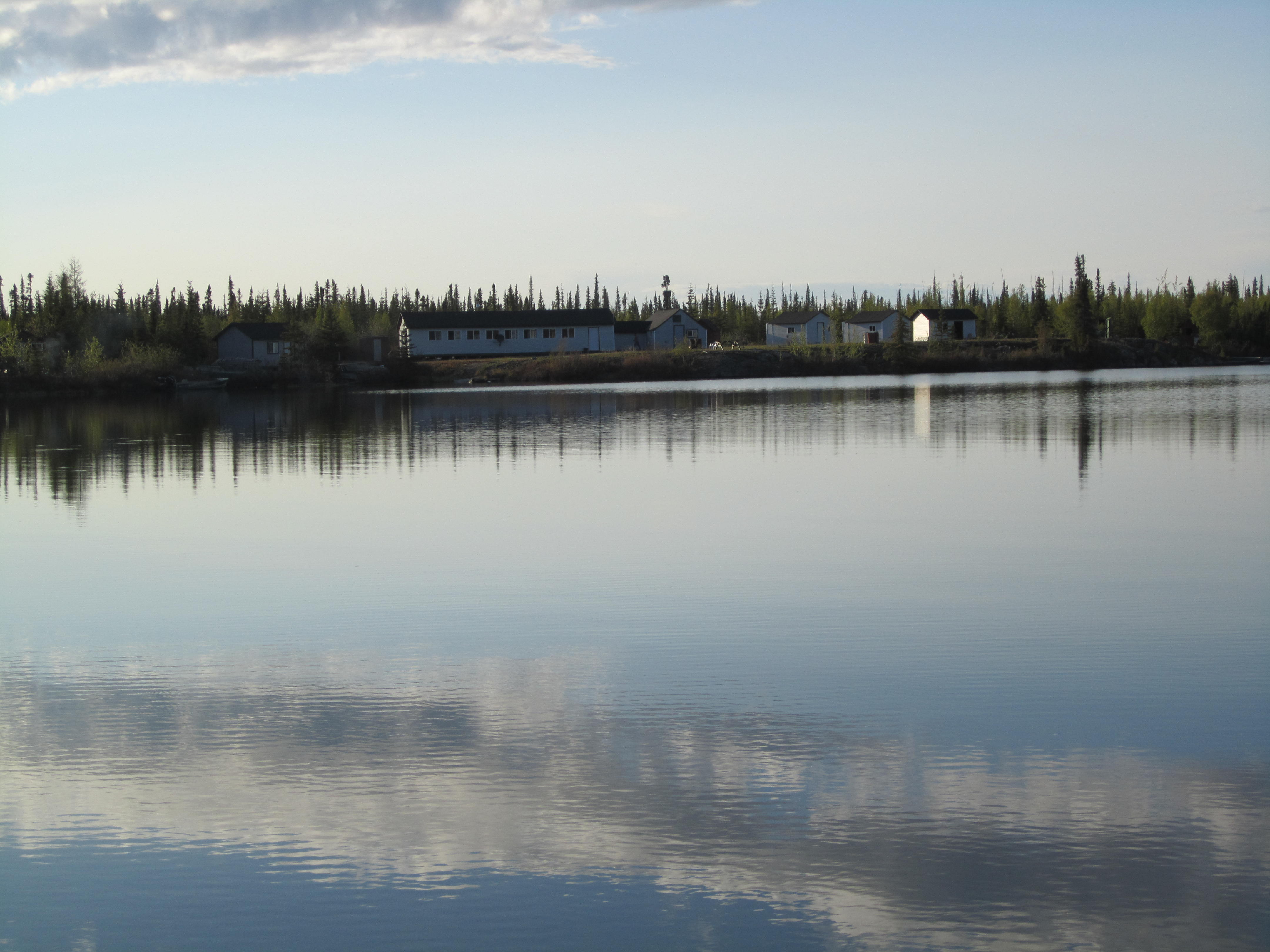 A fishing Lodge on Lac La Martre, Northwest Territories